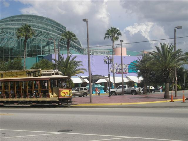 Florida Aquarium exterior with trolley